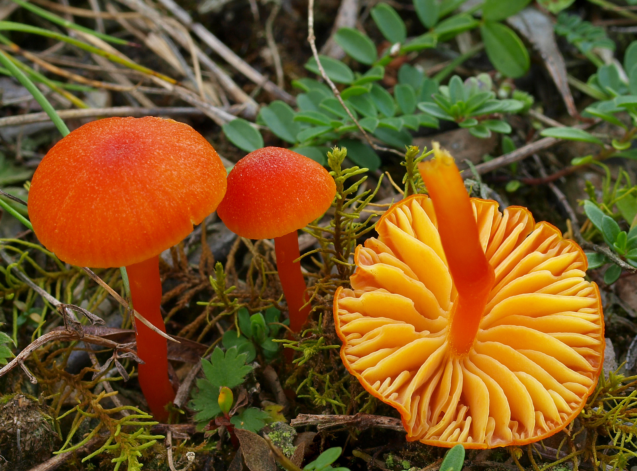 Limestone Waxcap (Hygrocybe calciphila)